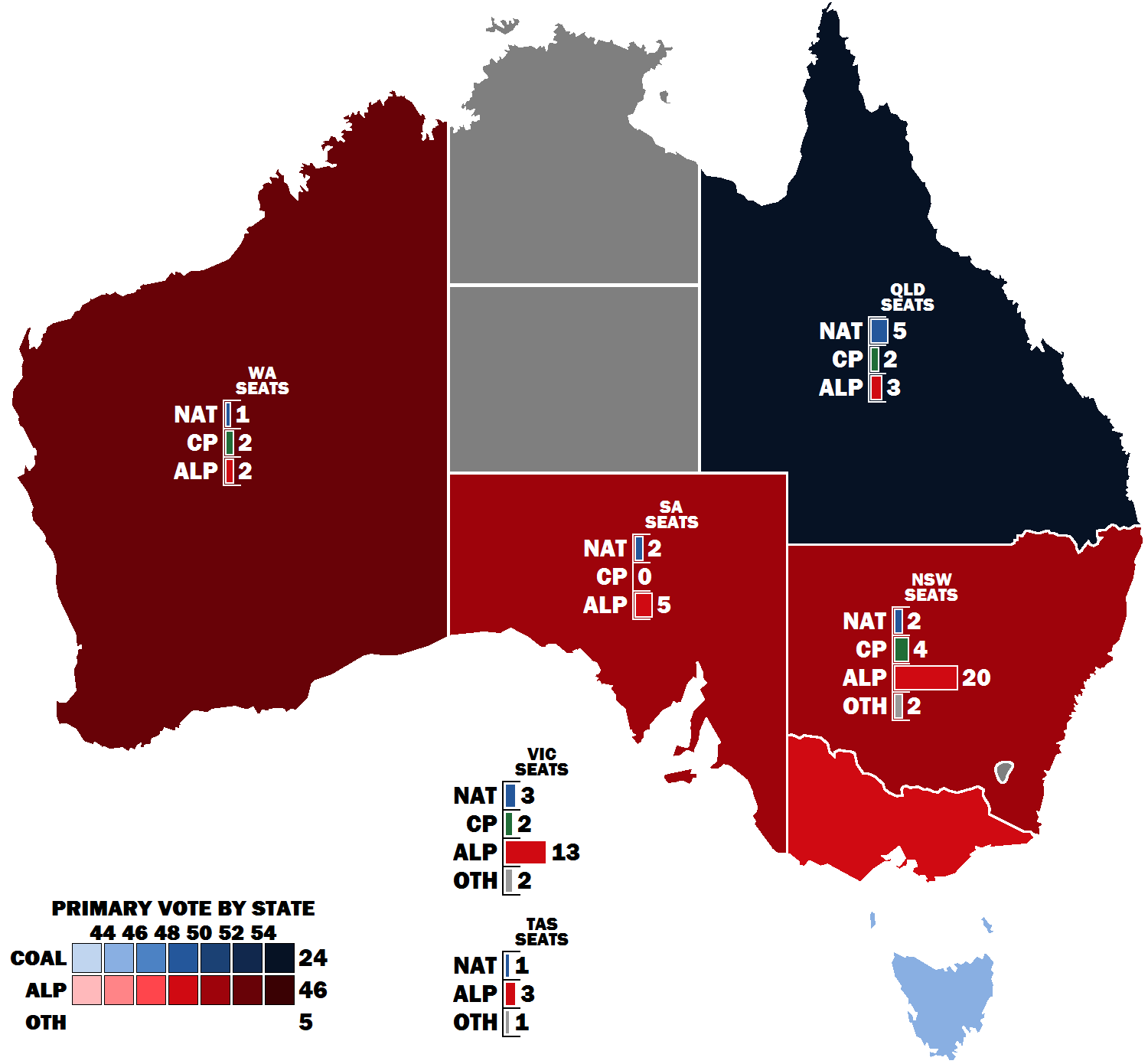 Result of the primary vote by state in the 1929 Australian federal election.